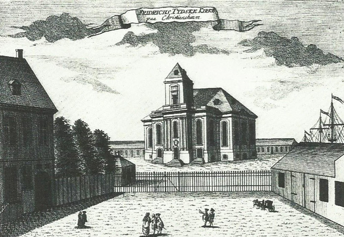 Frederiks Tyske Kirke in Copenhagen, Denmark